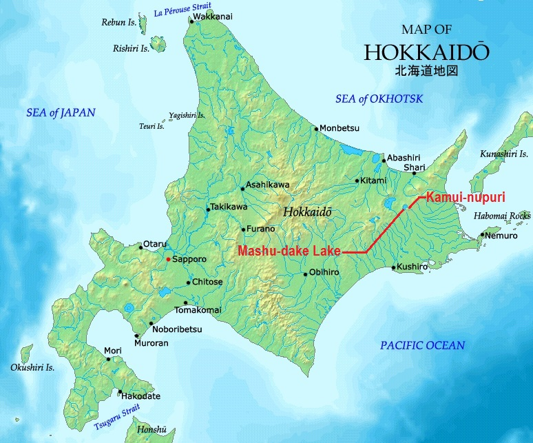 Map of Hokkaido in English, made by the uploader, based on a map from demis.nl. Japanese version: Image:Hokkaidomap-jp.png ==